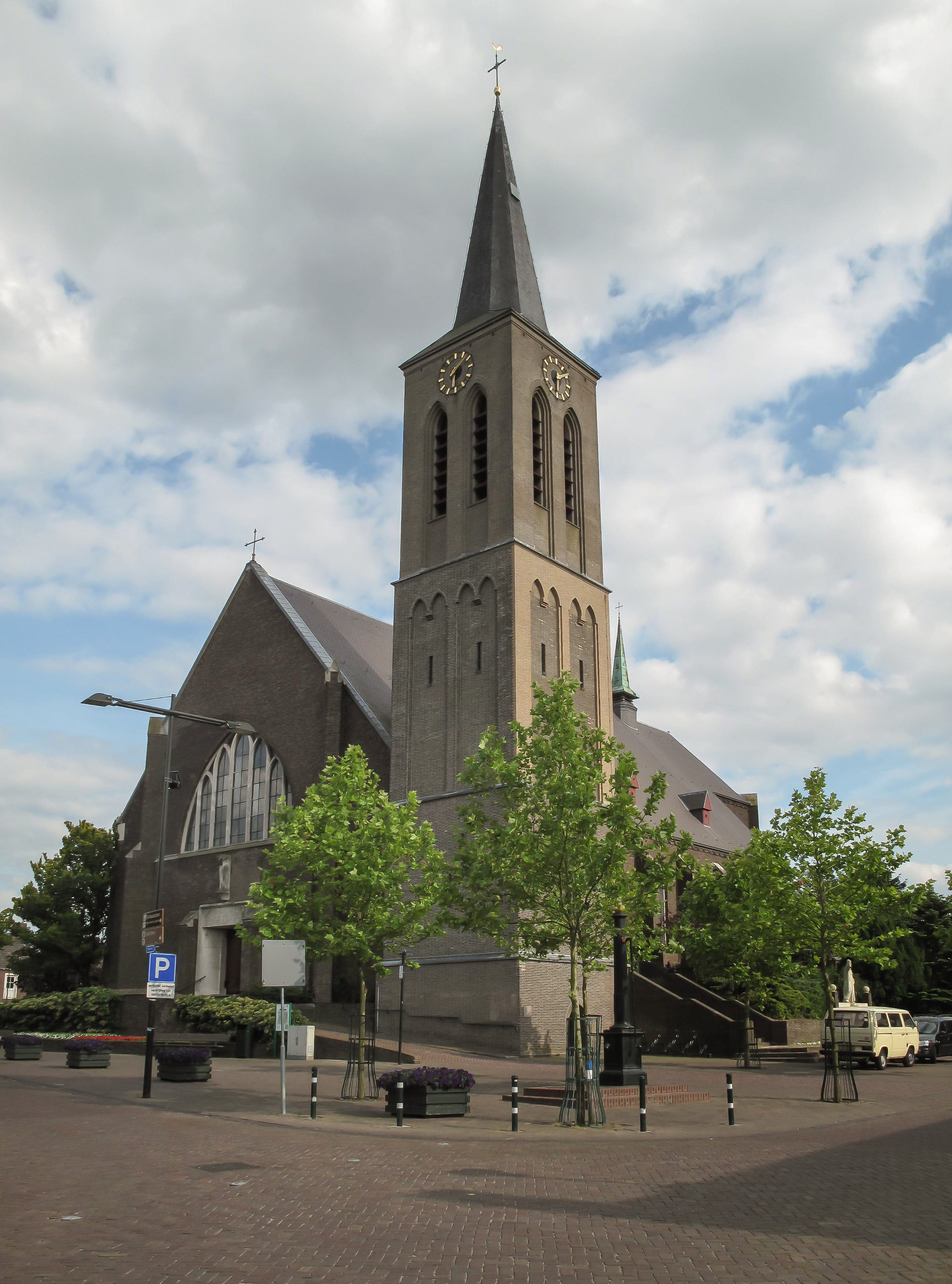 Velden, church